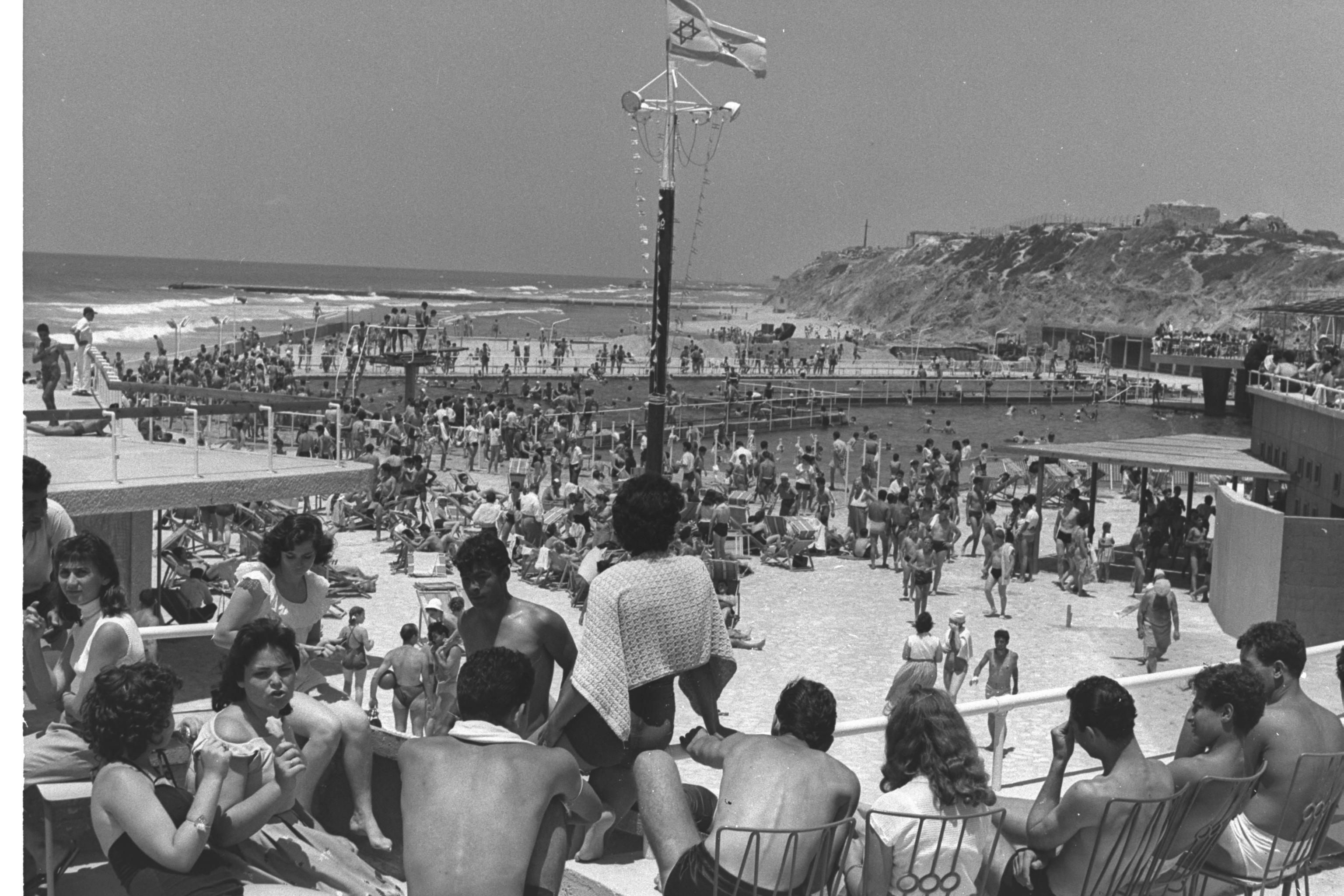 Original Description: BASKING IN THE SUN AT TEL AVIV'S NEW SWIMMING POOL.